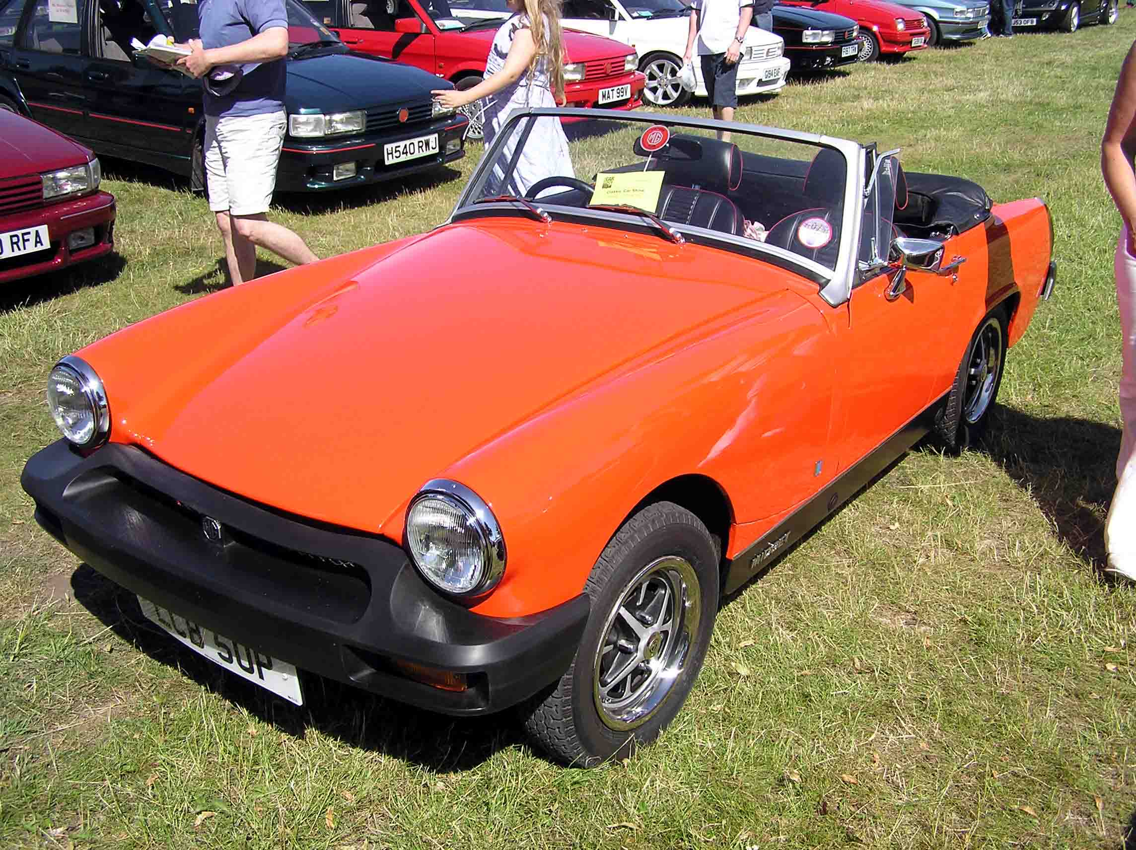 1976 MG Midget at Bristol Car Show, The Downs, Bristol, England.